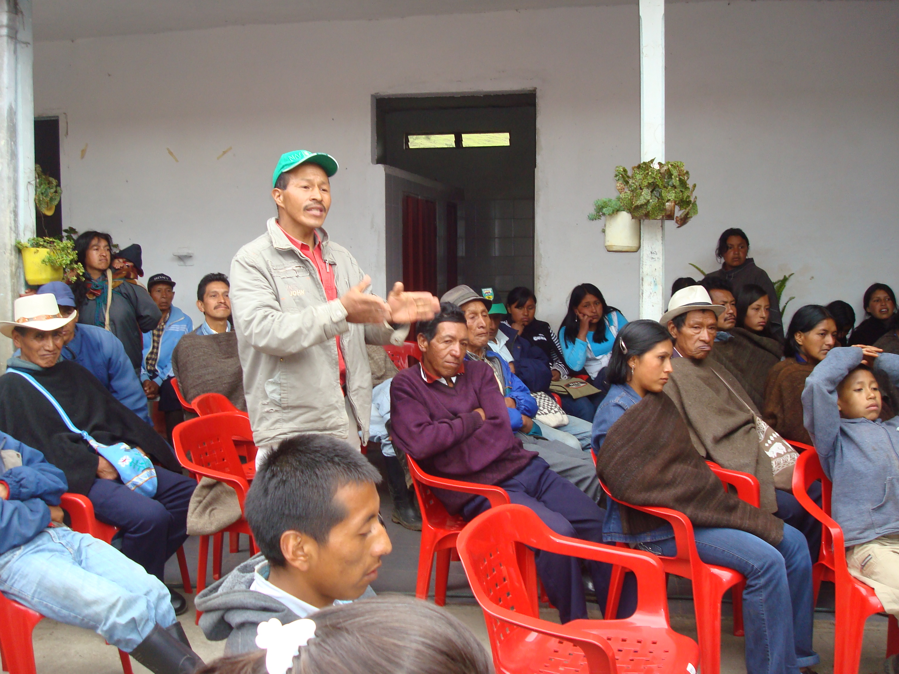 Comunidad Indígena del Resguardo de Pitayó